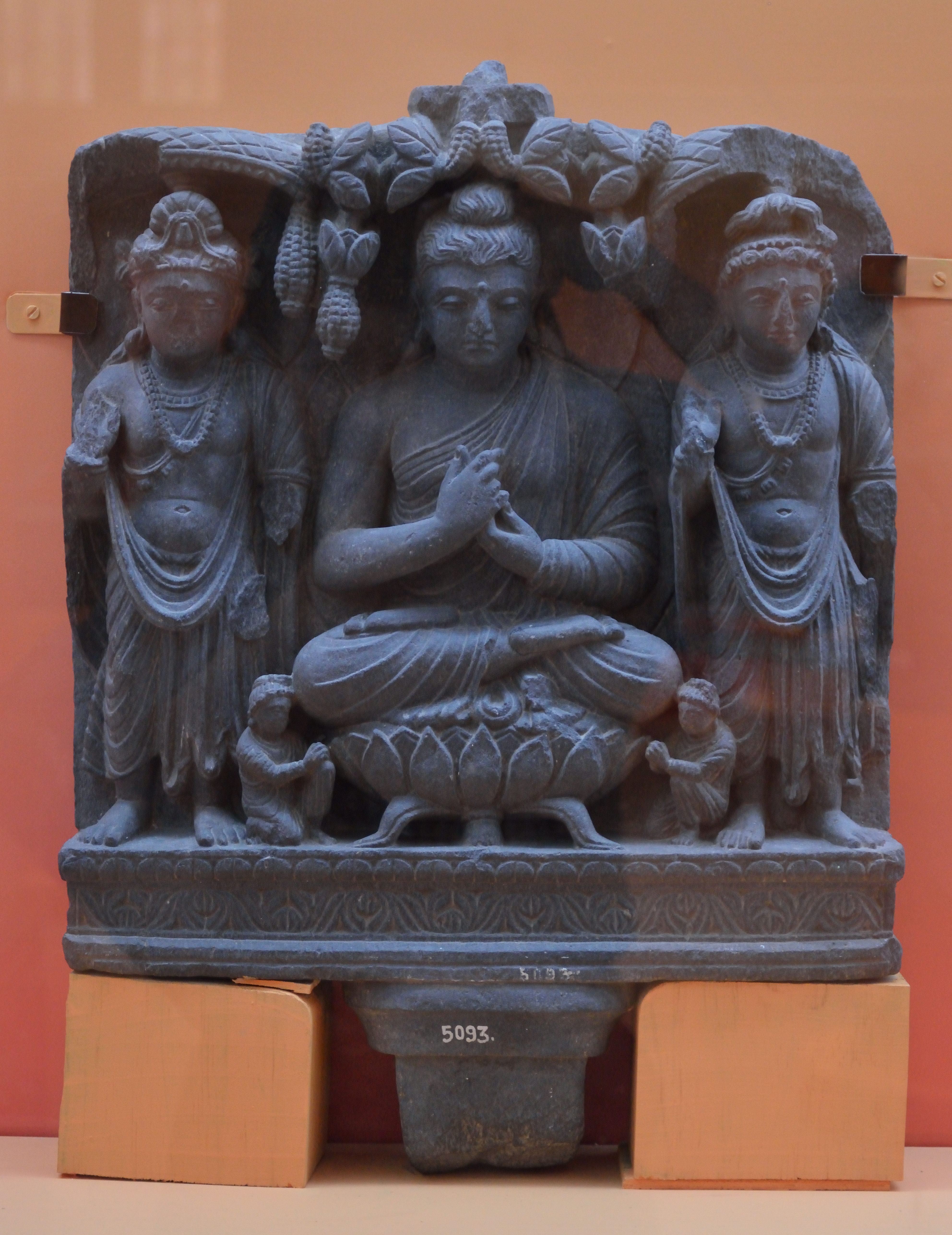 This photograph has been taken during the 'Indian Buddhist Art' exhibition that organised by the Indian Museum, Kolkata with 91 rare Buddhist artifacts comprising sculptures and manuscripts at its two different halls to celebrate 202nd anniversary of the museum. This exhibition was previously shown to China, Japan, Singapore and New Delhi also between September 2014 and December 2015.